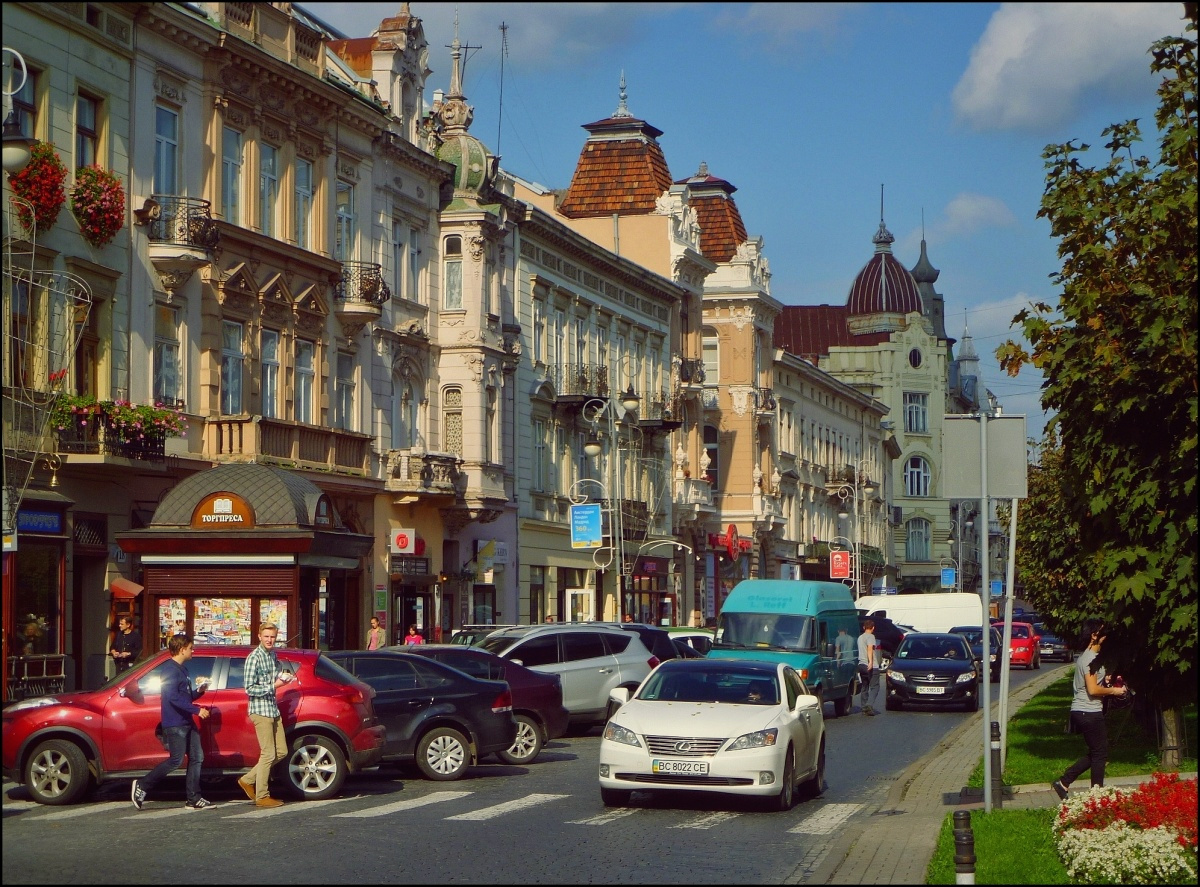 Shevchenko Ave.